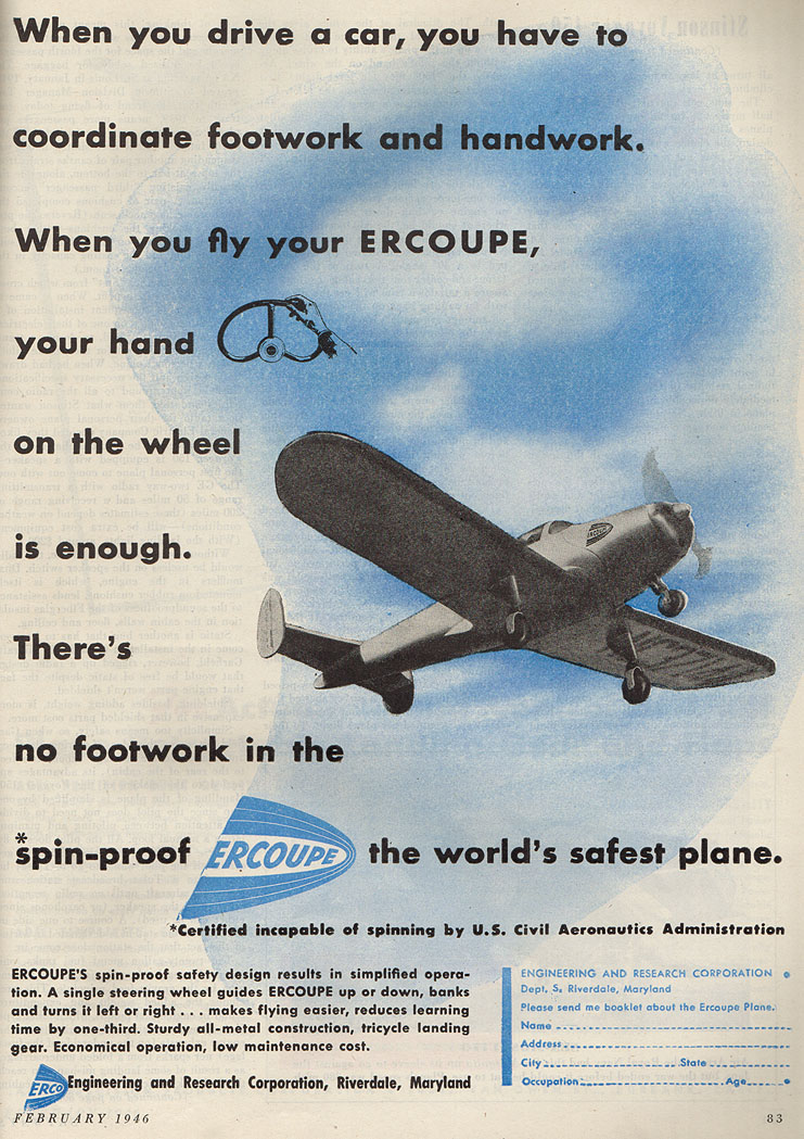 Also in 1946 ERCO placed this full page ad on Page 83 in the February issue of Skyways magazine (a competitor of Flying which billed itself as "The Magazine of Aircraft, Air Travel, Air Power").